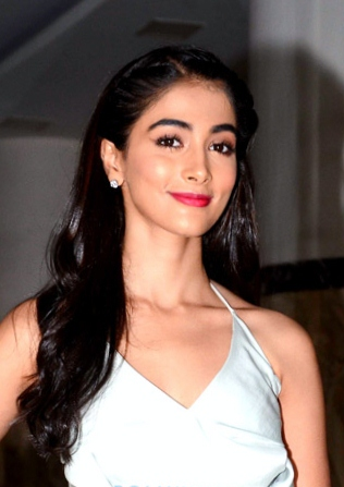 Pooja Hegde in 2016